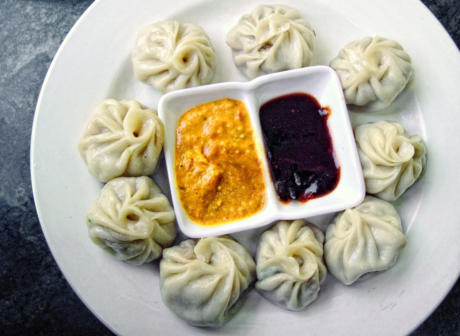 A typical serving of a plate of Momo with Sesame Yellow Sauce and Red Ginger Chilli Sauce in Nepal